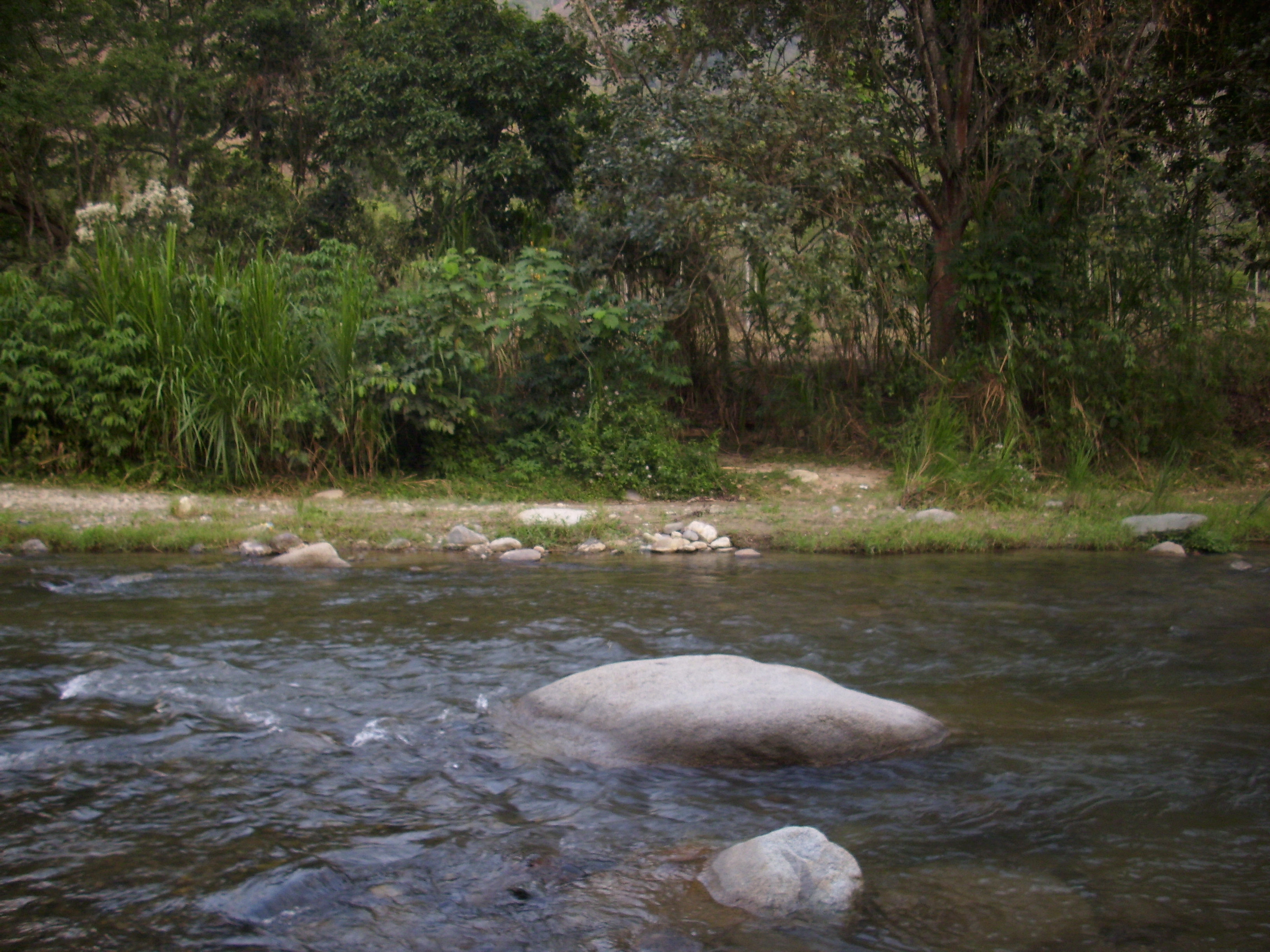 Rio Rionegro Santander Esta fotografía fue tomada en el municipio colombiano con código 68615.